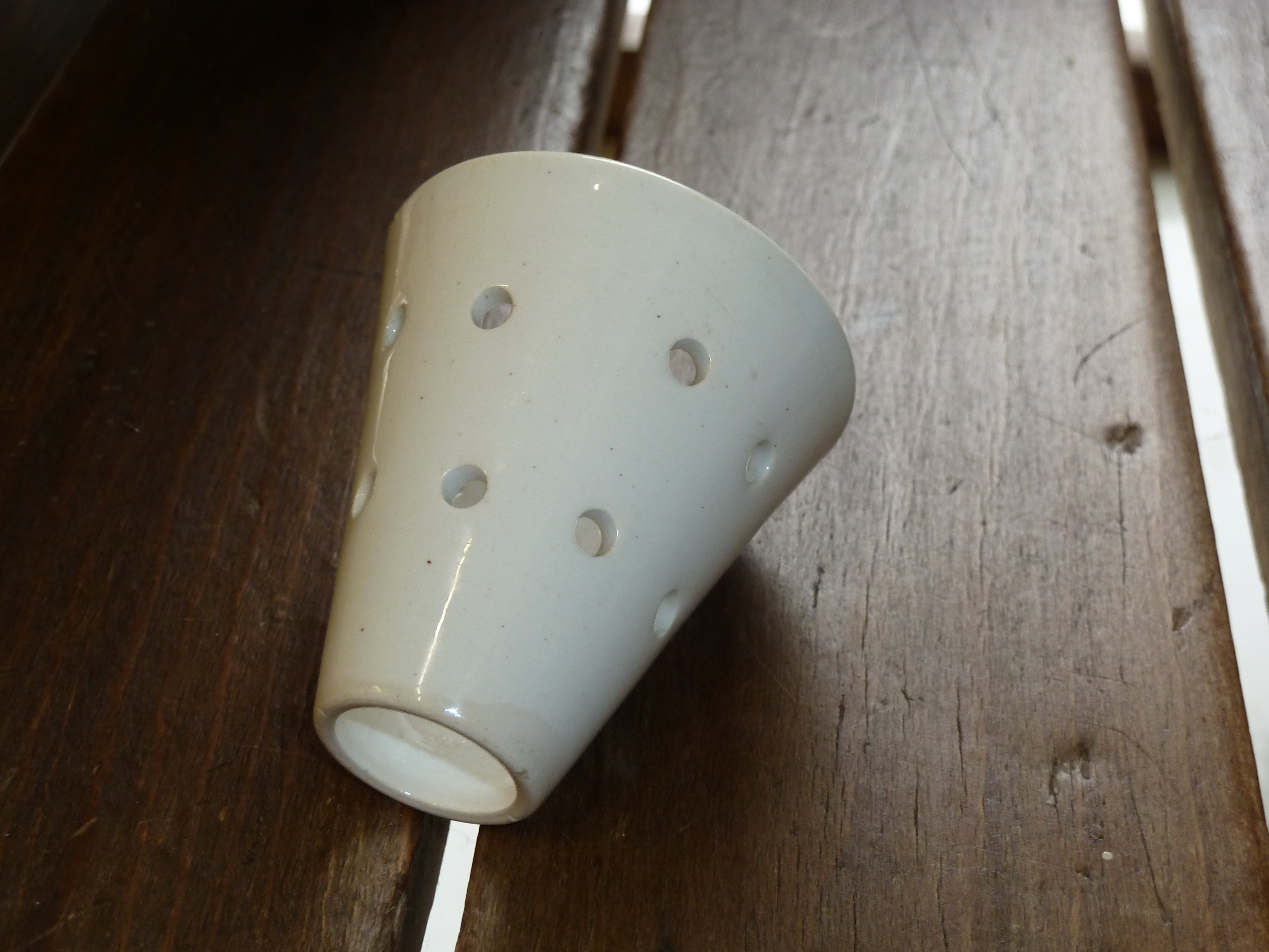 Veritable Cremet d'Anjou